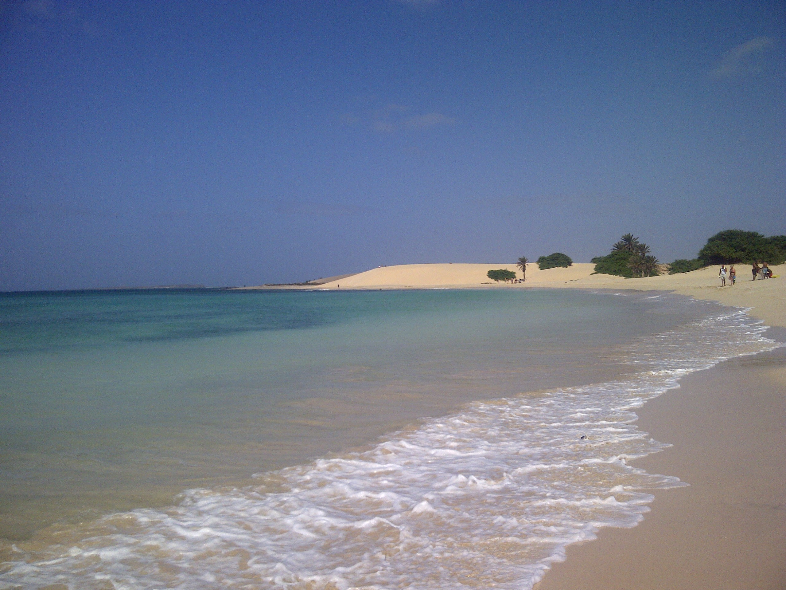 Chaves Beach, looking to the North (Boa Vista, Cape Verde)